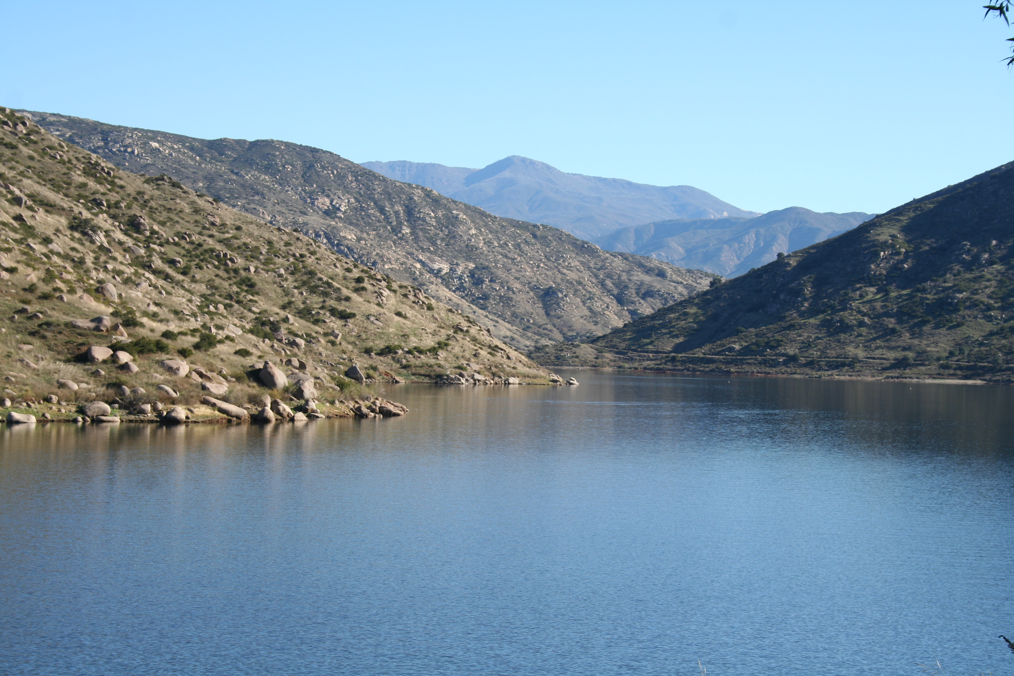 El Capitan Reseviour before the storms of the season. San Diego County, California